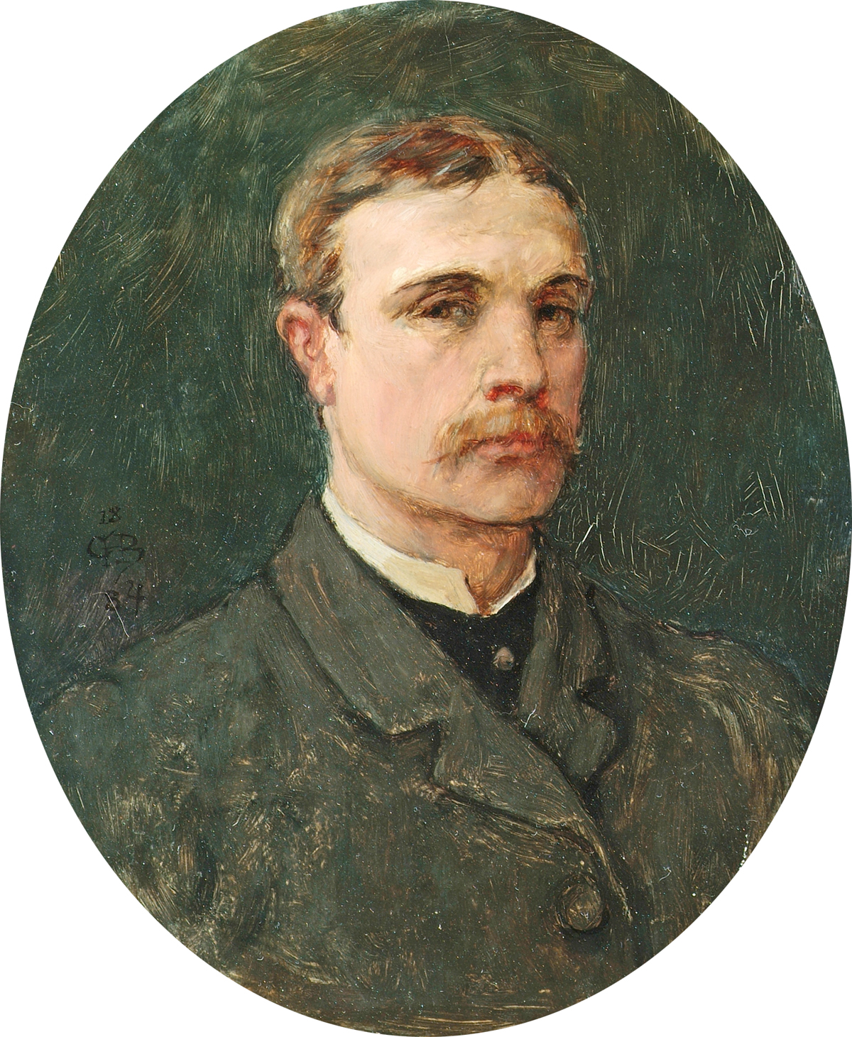 Self portrait by the English-American painter George Henry Boughton